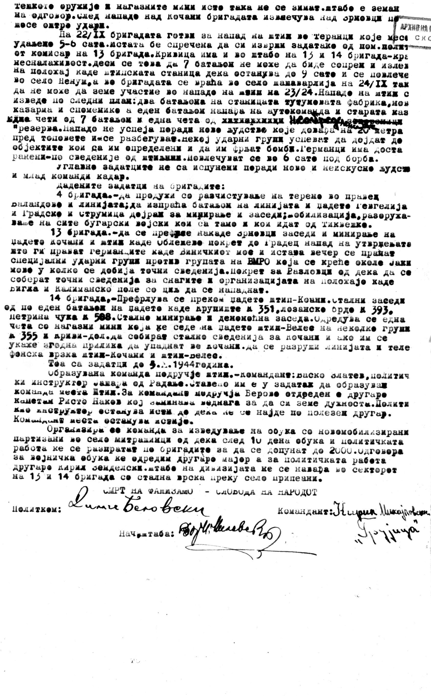 A report from the Staff of the 50 division sent to the GS of Macedonia regarding the formation of the 4, 13 and 14 brigades (26 September 1944). This media file is produced by Wikipedian in Residence in Category:Wikipedian in Residence at DARM in 2017.